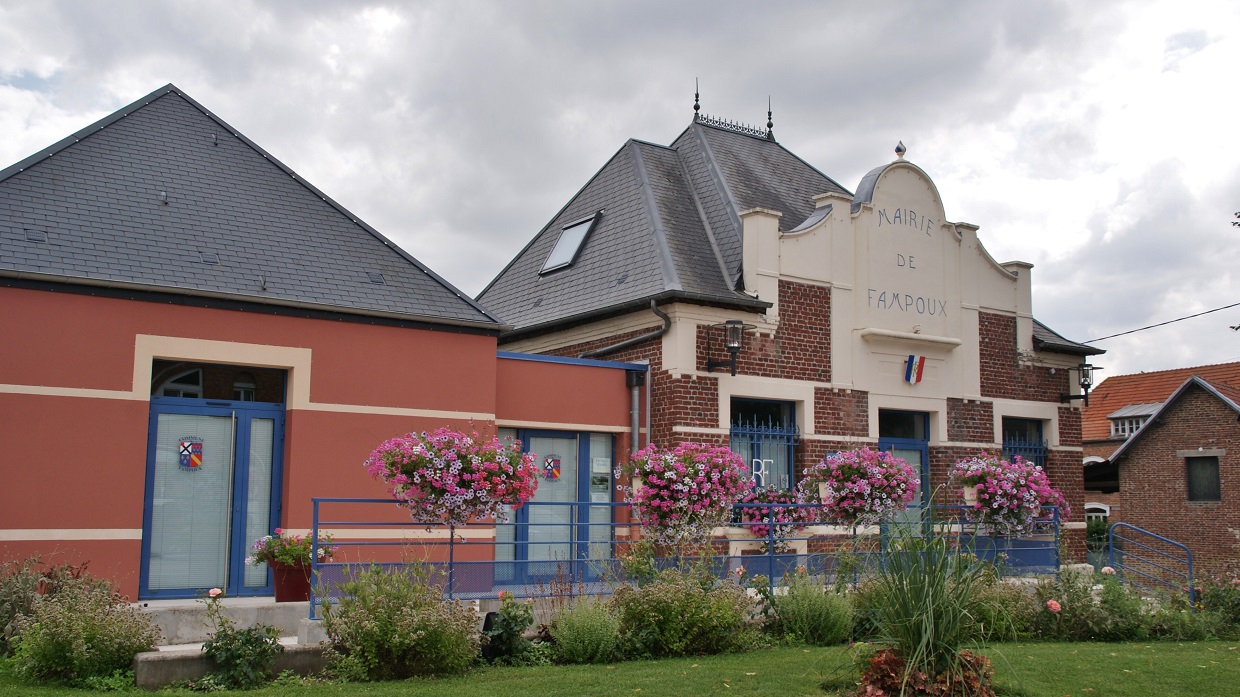 La Mairie